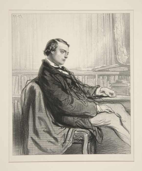 "Théodore de Banville," lithograph, by the French artist Paul Gavarni (Sulpice Guillaume Chevalier). Courtesy of the Yale University Art Gallery, Yale University, New Haven, Connecticut.